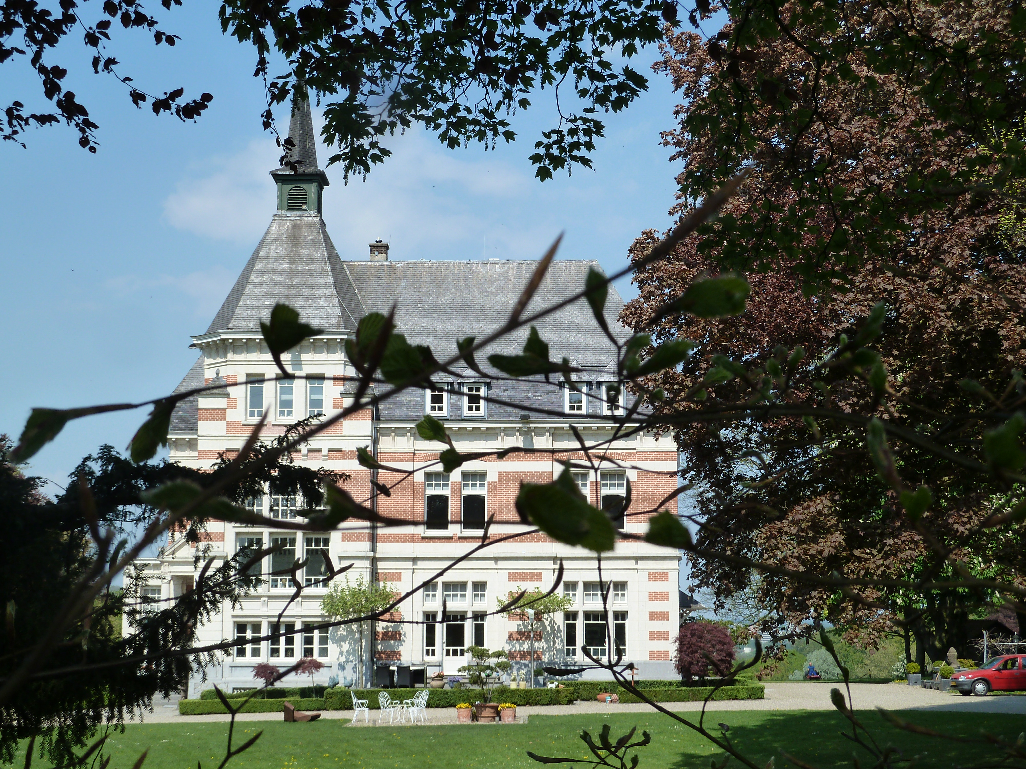 Imstenrade 5, Heerlen, Limburg, the Netherlands